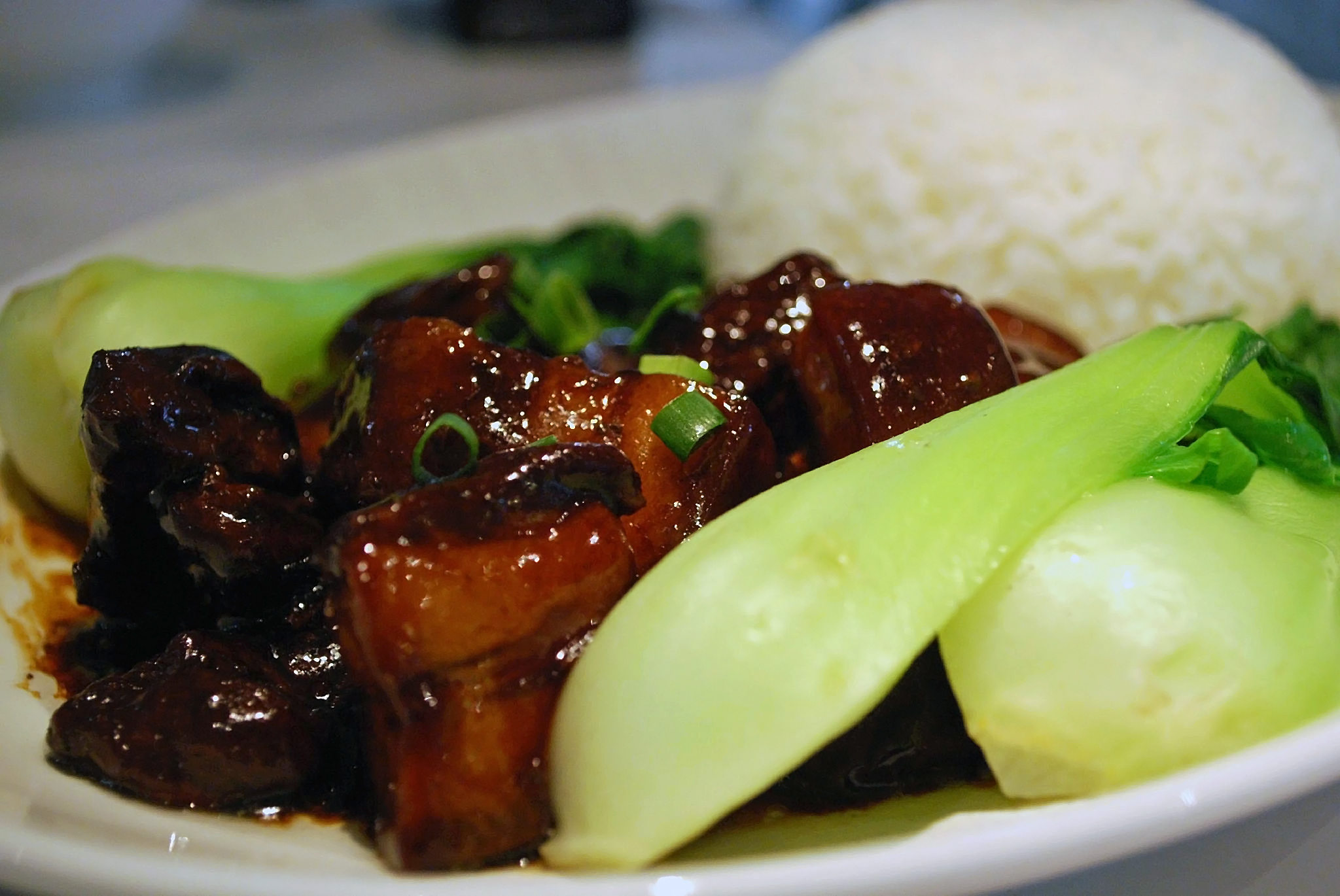 The Bund's version of 红烧肉 Grandma's Pork or red-cooked pork was very good. The sauce was syrupy and fragrant, coating firm pieces of fatty belly pork. The firmness means that the fatty layer is still intact and bouncy. The belly meat also has smaller seams of fat which makes the meat moist and tender. I wonder if this is the famous 婆婆肉 Grandma's Pork or 红烧肉 Red-Cooked Pork? It seems 红烧 red cooking is a typical Shanghai cooking style. --- 外滩 The Bund Restaurant Level 1 / 206 Bourke St Melbourne VIC 3000 (03)96630005 - 206 Bourke Street - Dining: The Bund Restaurant will offer affordable luxury with internationally acclaimed chefs serving authentic Chinese cuisine with Shanghainese and Zhe Jiang influences. It will bring the amazing taste of Shanghai to Melbourne's doorstep and present it in one of the most opulent settings the city has seen. - Espresso - Epicure, The Age by Larissa Dubecki October 6, 2009 Birth of a dynasty THE $110 million redevelopment of the former Village City Centre complex into an Asian dining hub has signed Shanghai's Dynasty for a 600-seat restaurant. The press release touts the signing of Dynasty, a Cantonese and dim sum specialist based at Shanghai's Renaissance Yangtze Hotel, as a coup for the LAS Group's commercial redevelopment of the Bourke Street site, which backs on to Chinatown. Dynasty joins the 120-seat Bund, which will also boast two five-tonne shark tanks, and the expansion of former lord mayor John So's Dragon Boat, which is taking over two floors and will have a large open-air balcony. All going to plan, most of the complex will open by mid-month and Dynasty just before Christmas.